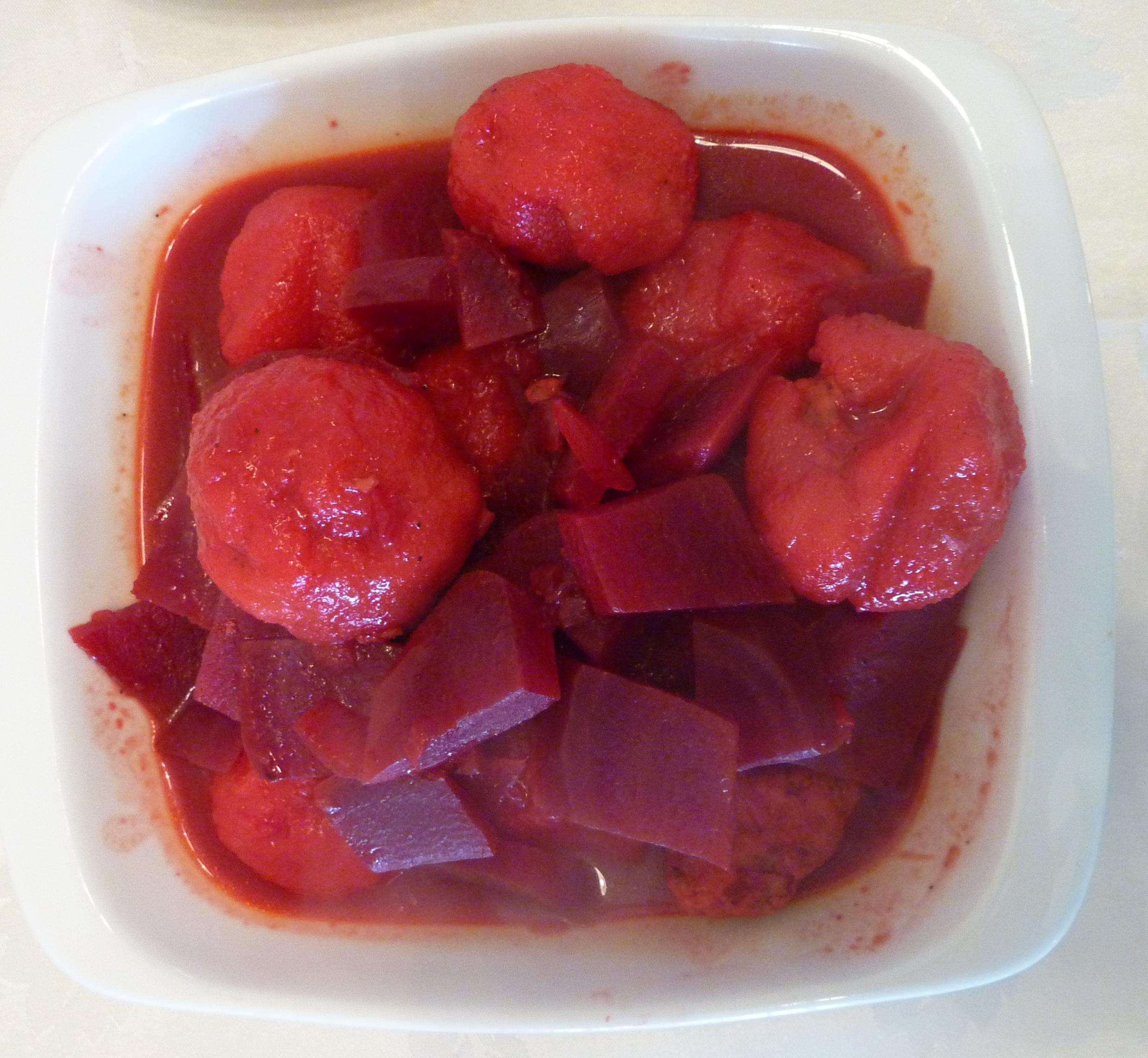 Red Iraqi Kubba, Israel, May 2010